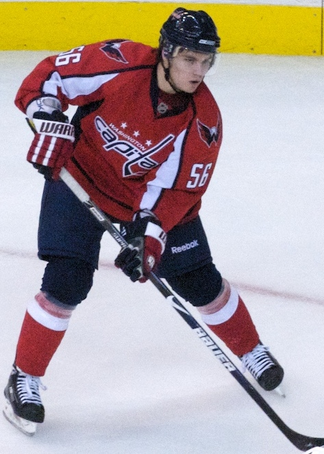 Chris Bourque during the 3rd period of the Boston Bruins vs Washington Capitals on October 5, 2008 preseason game.